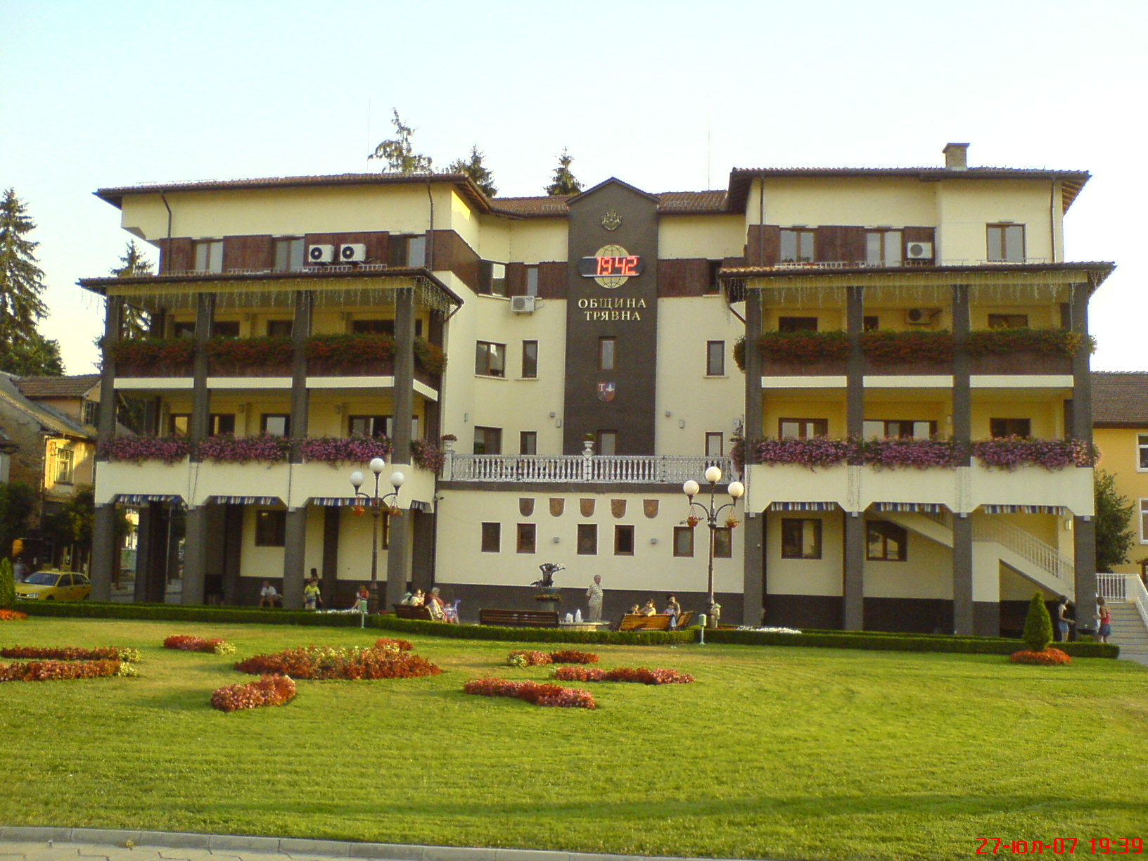 The building of Tryavna Municipality. Tryavna, Bulgaria